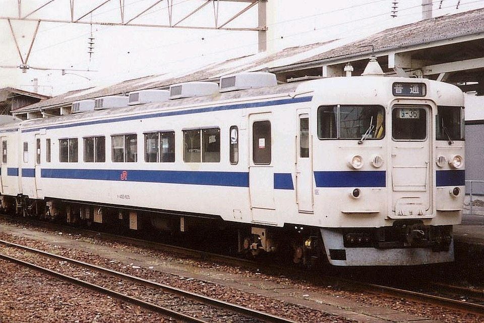 JR Kyushu 455 series EMU car KuHa 455-605 formed in a 475 series EMU set at Yatsushiro Station